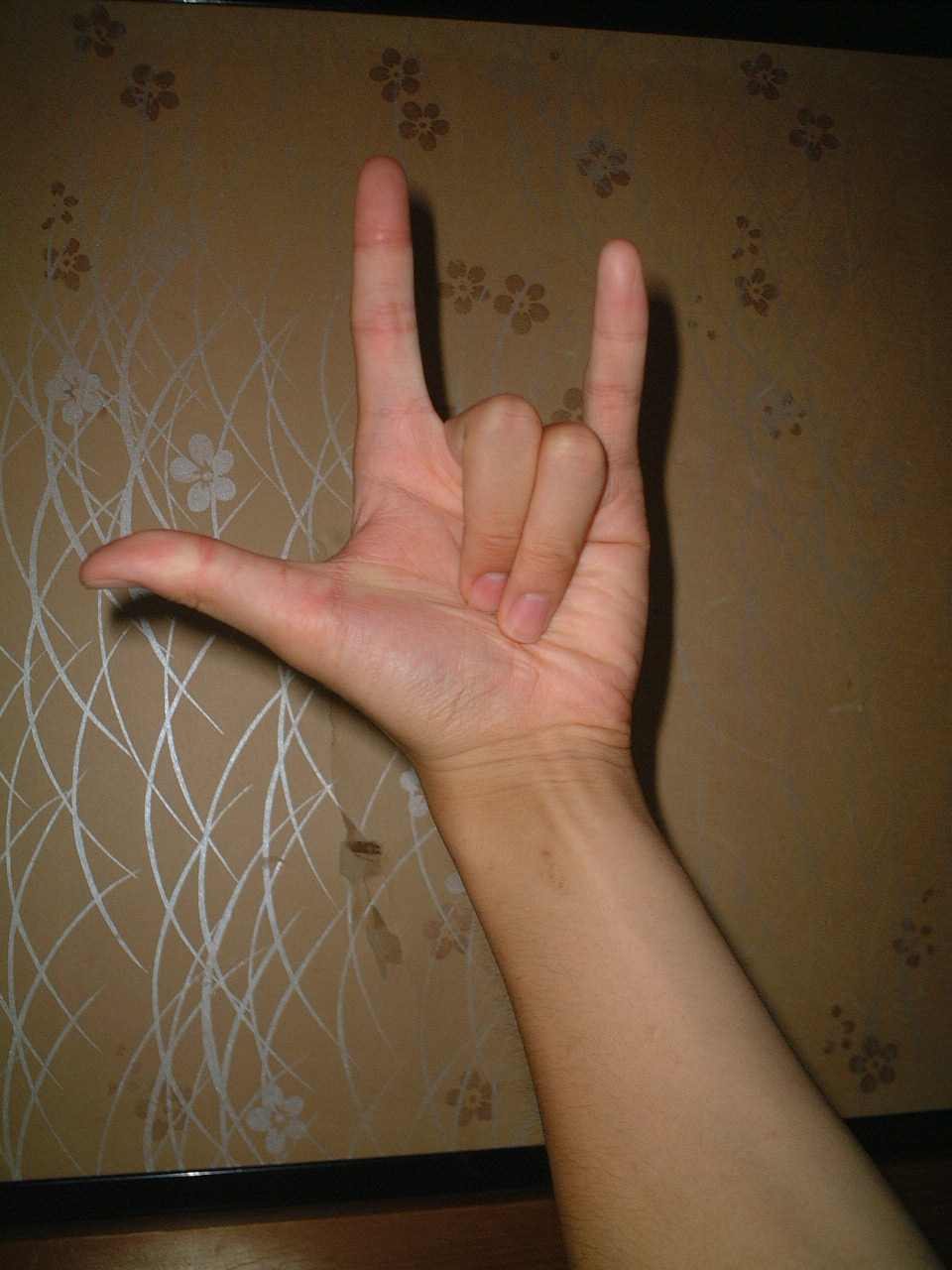 Image